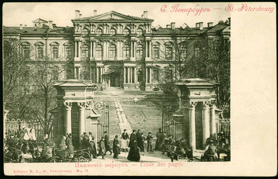 Vorontsov Palace in St Petersburg, as designed by Bartolomeo Rastrelli. From a pre-revolutionary Russian postcard.